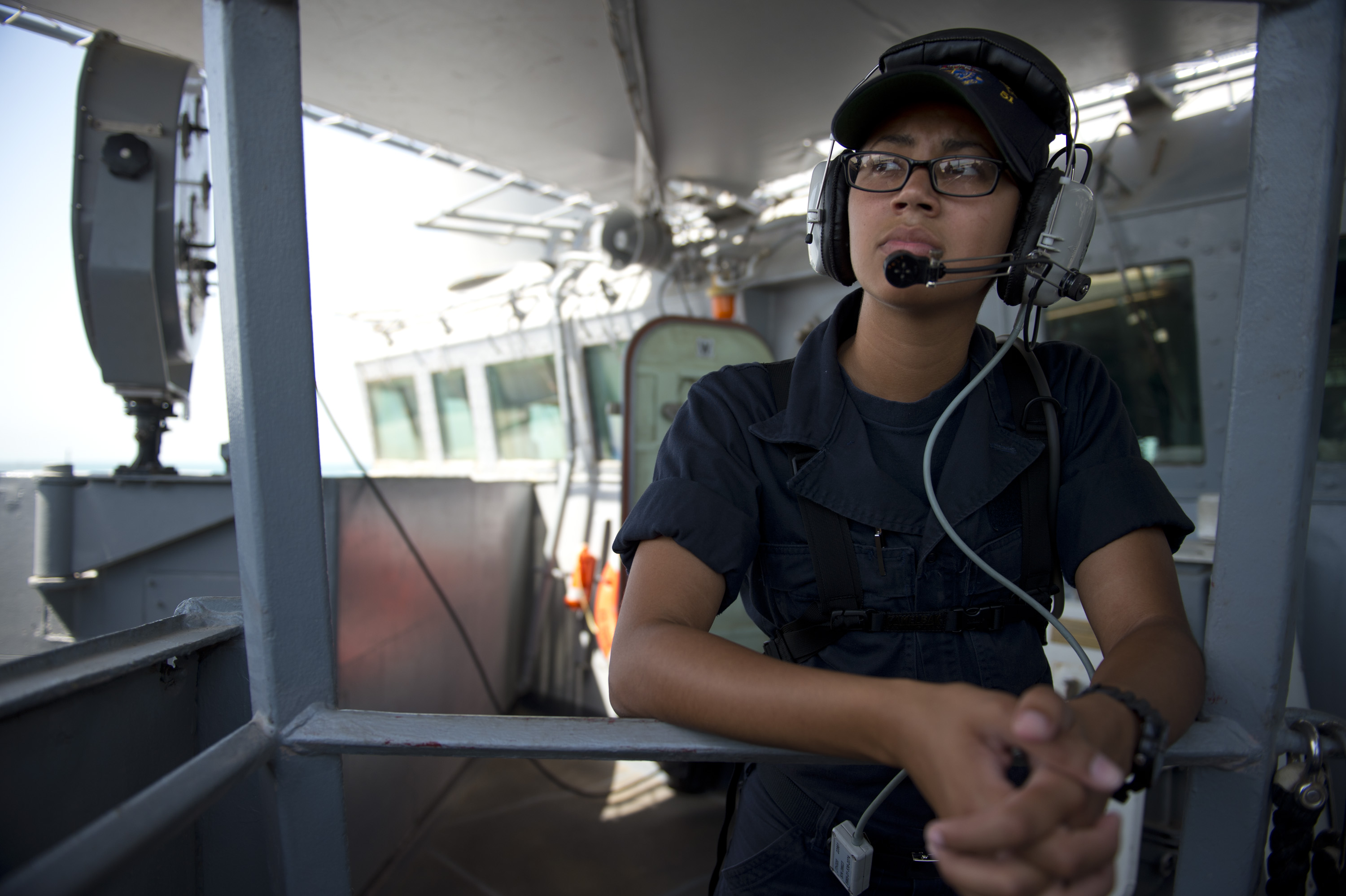 U.S. Navy Quartermaster Seaman Arielle Cox stands watch as the guided missile destroyer USS Arleigh Burke (DDG 51) prepares to depart Bahrain following a scheduled port visit June 6, 2014. The Arleigh Burke was deployed in the U.S. 5th Fleet area of responsibility supporting maritime security operations and theater security cooperation efforts.